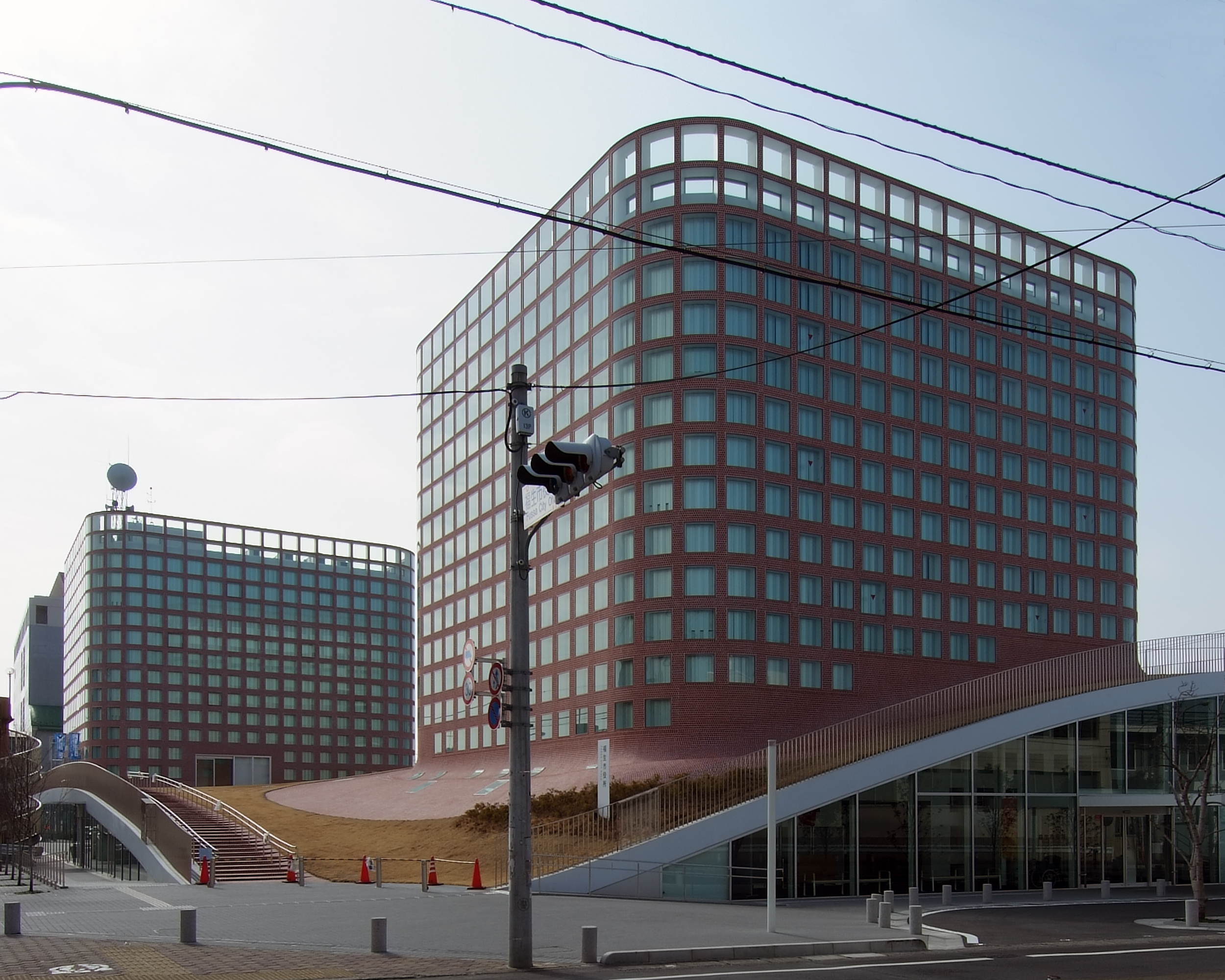 Fussa City Hall, at Fussa Tokyo Japan, design by Riken Yamamoto in 2008.